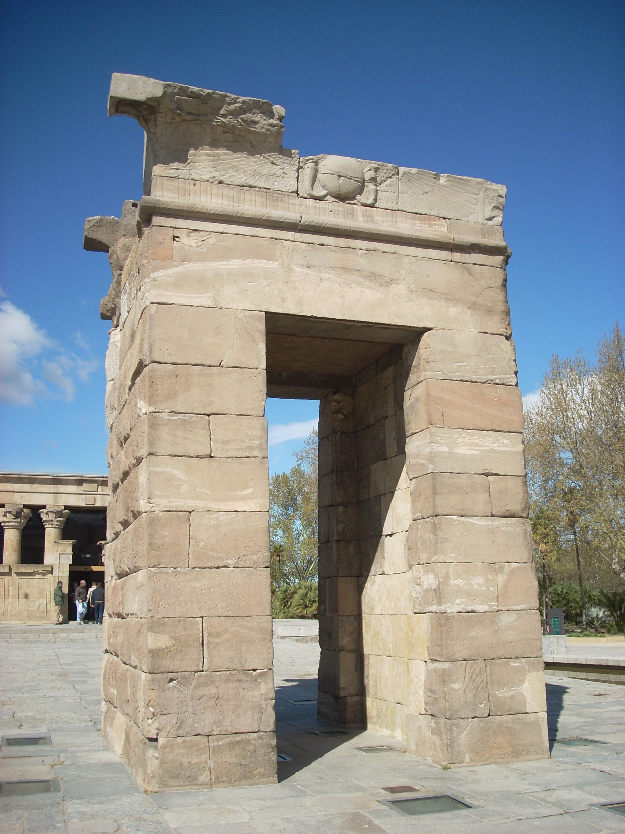 Monumental doorway of the Temple of Debod, with winged sun sculpture. Madrid, Spain.